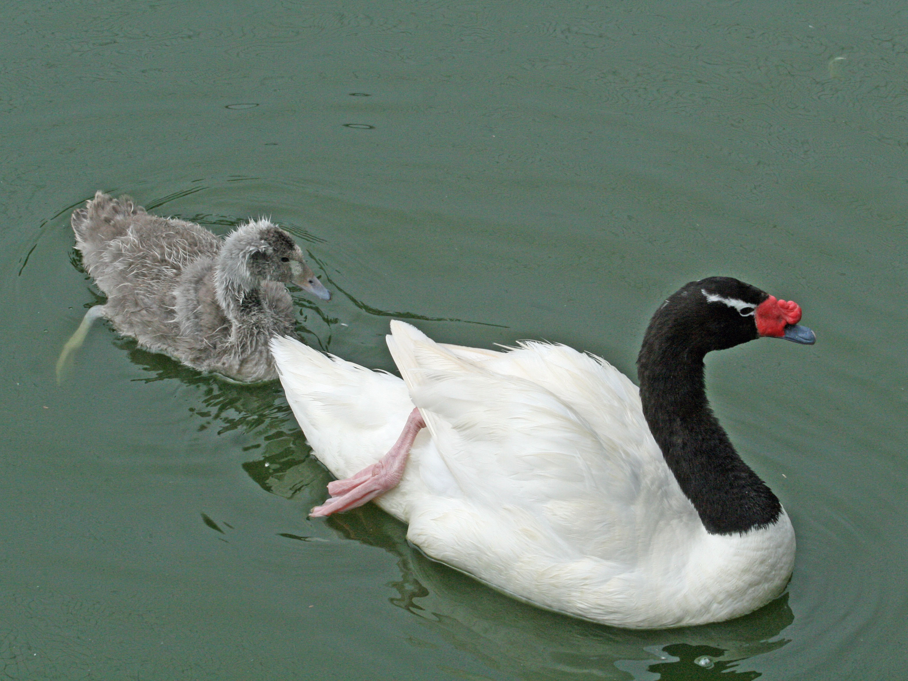 Black-necked Swan ('Cygnus melancoryphus) - Sylvan Heights Waterfowl Park, Scotland Neck, North Carolina